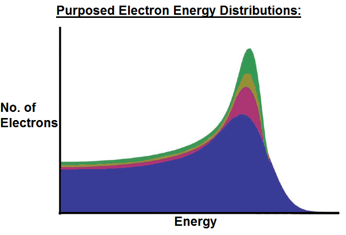 This one purposed electron energy distribution for electrons inside a polywell. It is taken from "A biased probe analysis of potential well formation in an electron only, low beta Polywell magnetic field" but is not an exact copy. It is purposed that the region of unmagnetized space leads to electron scattering, this creates peaked or monoenergetic distribution with a cold electron tail. Other information This one purposed electron energy distribution for electrons inside a polywell. It is taken from "A biased probe analysis of potential well formation in an electron only, low beta Polywell magnetic field" but is not an exact copy. It is purposed that the region of unmagnetized space leads to electron scattering, this creates peaked or monoenergetic distribution with a cold electron tail.